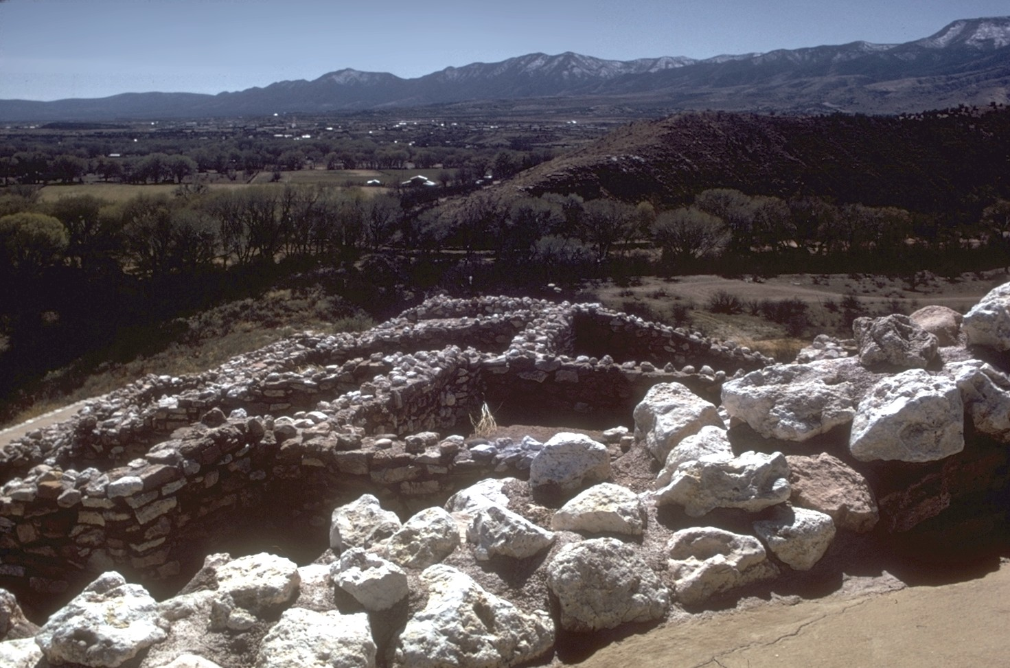 Walls of Pueblo in Tuzigoot National Monument, Arizona